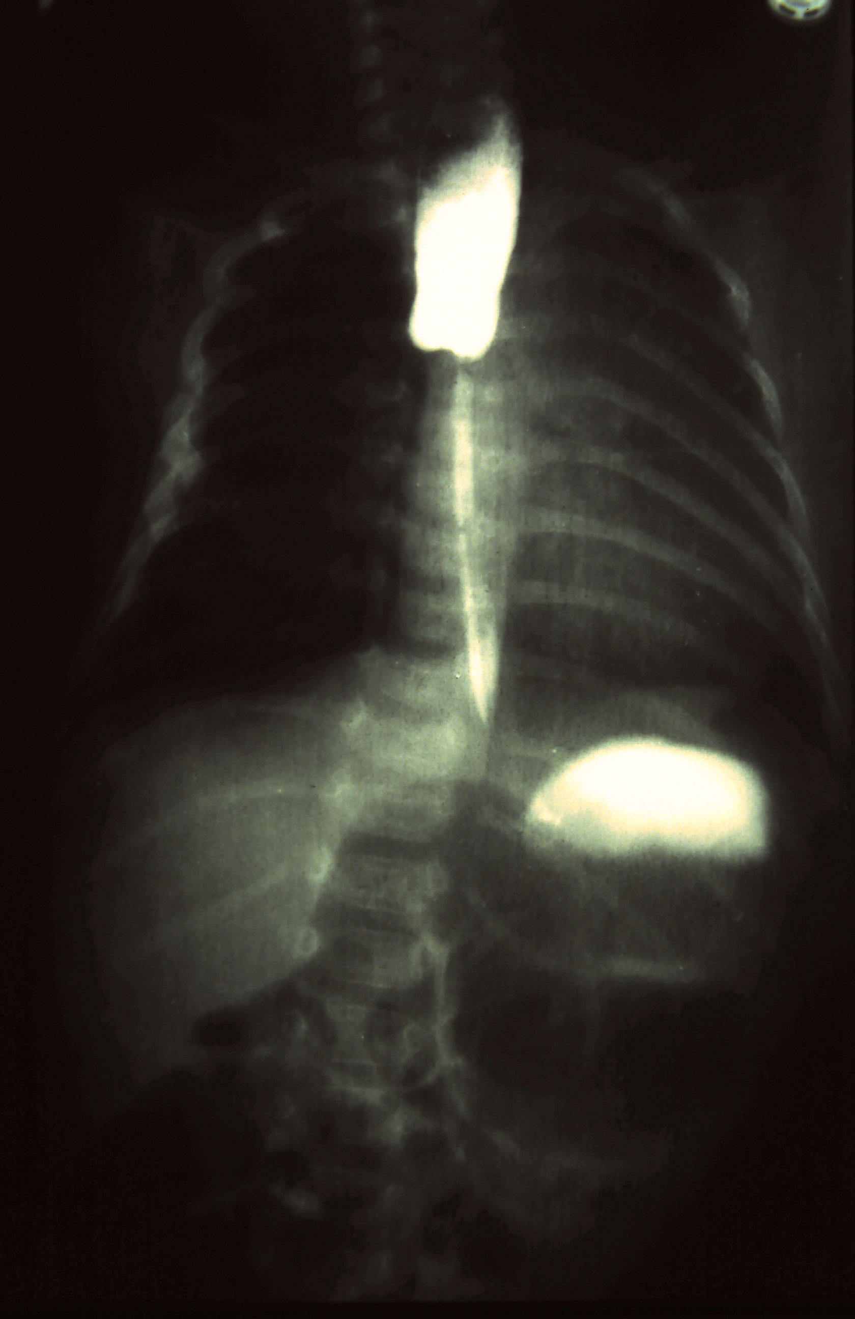 Upper gastrointestinal series. Contrast enhanced X-ray of congenital esophageal atresia.